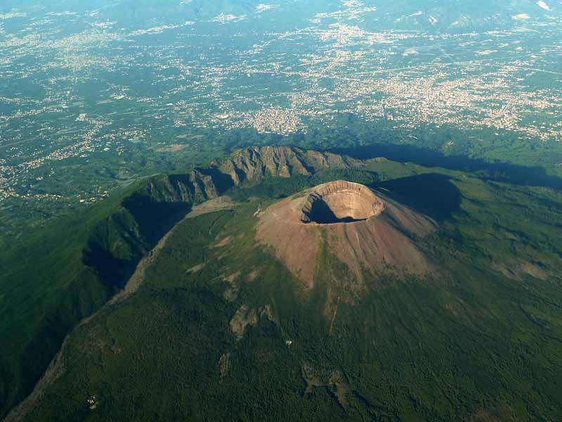 Aerial photo of Vesuvius volcano in Italy.